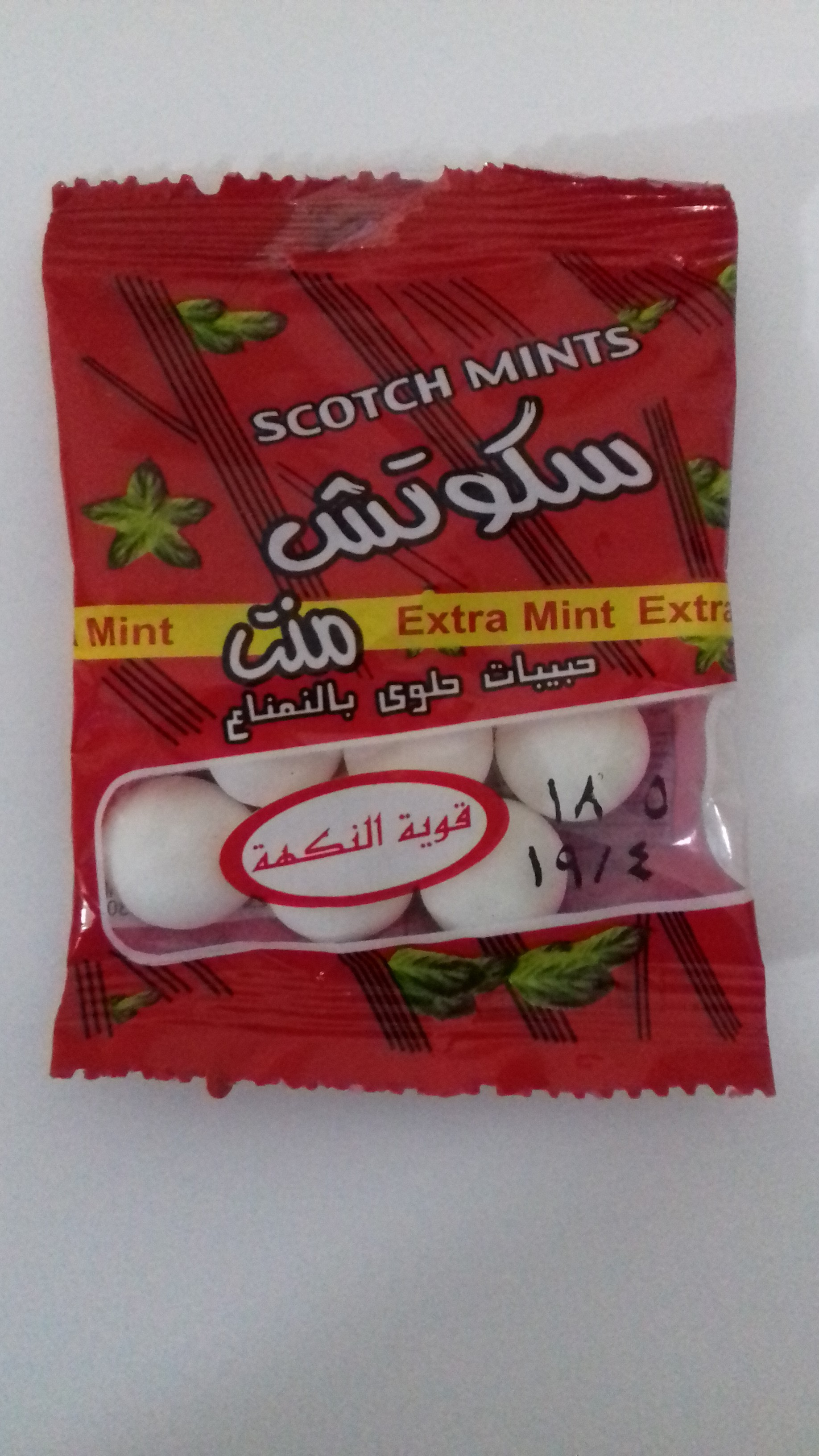 Egyptian brand of scotch mints.